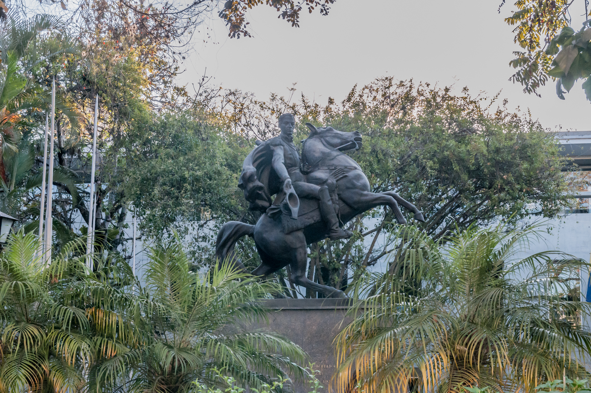 Bolívar Square in Los Teques